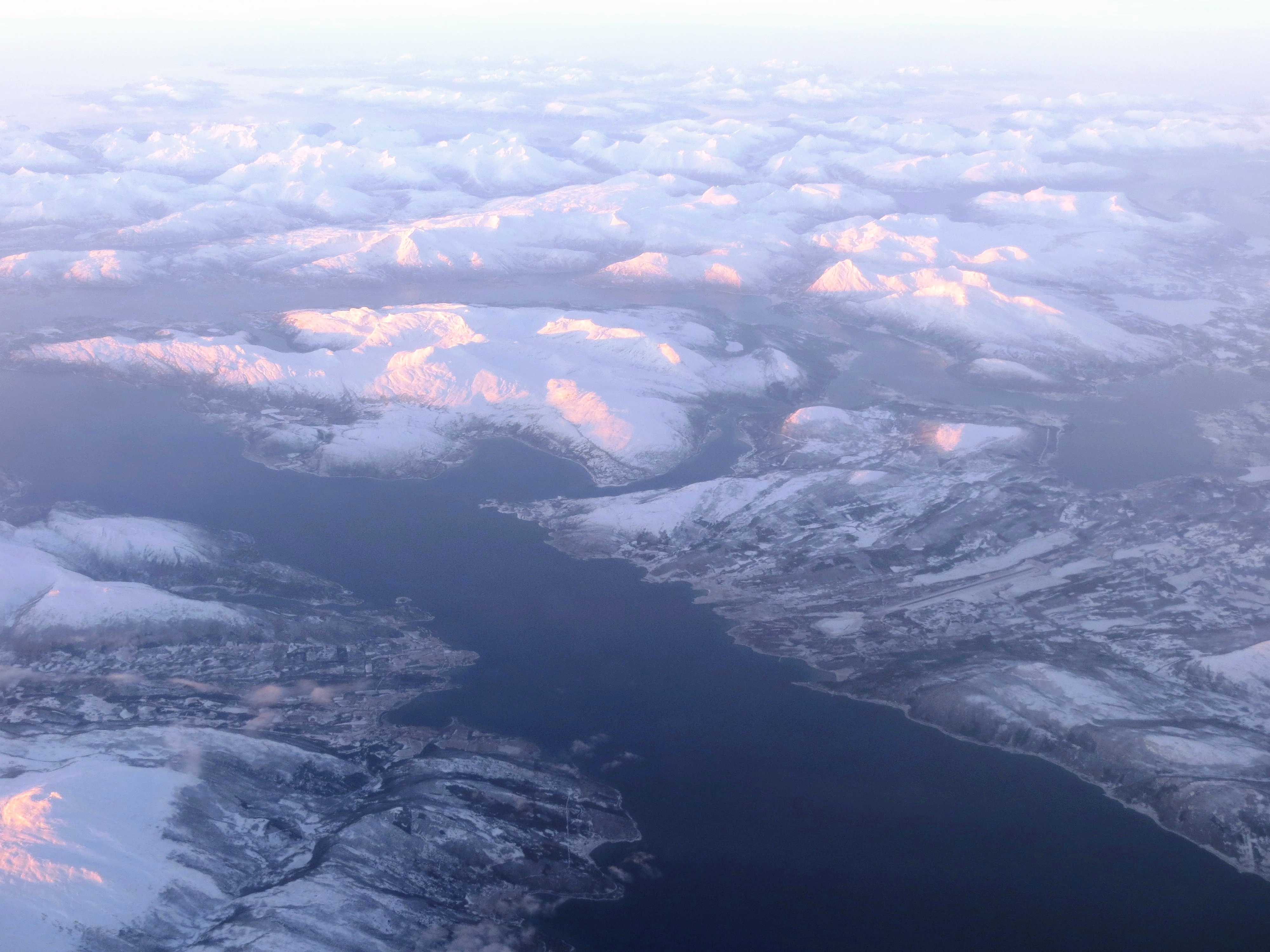 Aerial view over the municipality of Tjeldsund (and Evenes), in the northernmost part of Nordland county, Ofoten, Norway